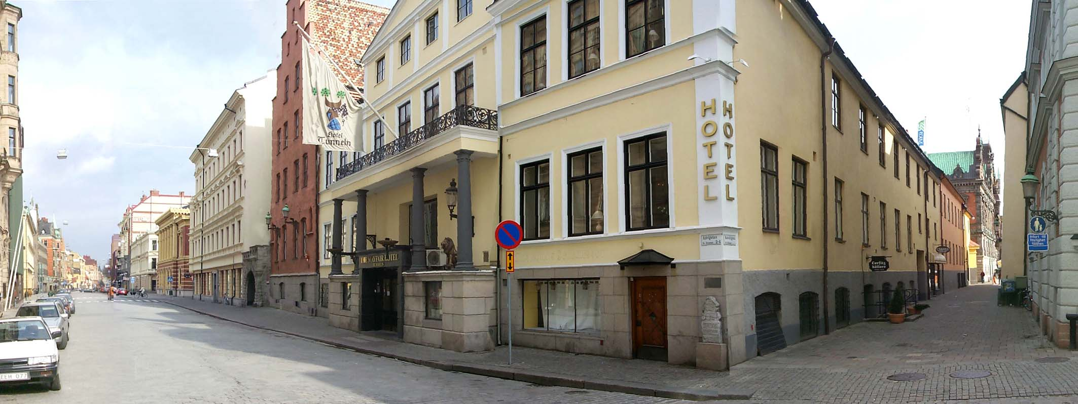 The medieval building of "Tunneln" in Malmö, Sweden.